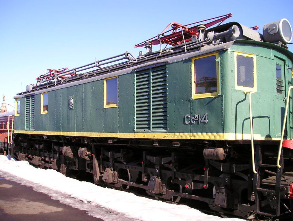 First Soviet electric locomotive — "Suramsky Soviet".